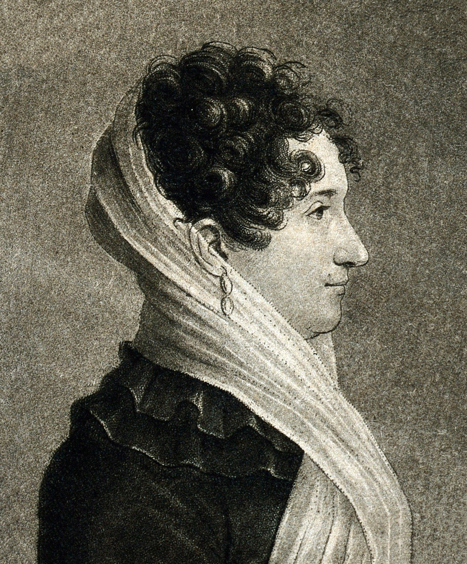 A picture of Marie-Anne Victoire Boivin.